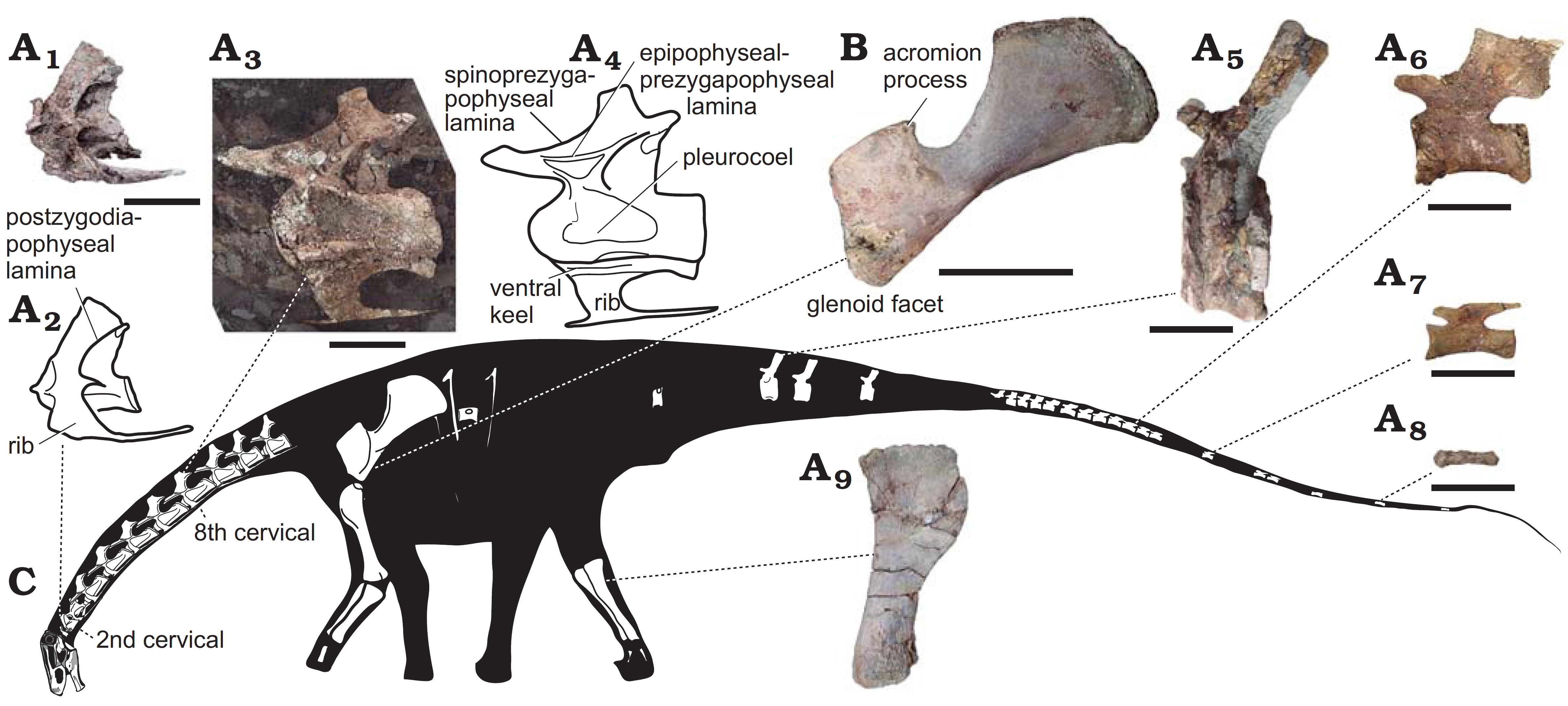 Rebbachisaurid sauropod Lavocatisaurus agrioensis gen. et sp. nov. from Agrio del Medio (Argentina), Aptian–lower Albian. A. MOZ-Pv1232, axis in lateral view (A1, photograph; A2, drawing); eight cervical vertebrae in lateral view view (A3, photograph; A4, drawing, ); anterior caudal vertebra in lateral view (A5); middle caudal vertebra in lateral view (A6); posterior caudal vertebra in lateral view (A7); posteriormost caudal vertebra in lateral view (A8); left tibia in lateral view (A9). B. MOZ-Pv 1255, left scapula from a juvenile specimen, in lateral view. C. Skeletal reconstruction based on the holotype and paratype specimens. Scale bars 10 cm.